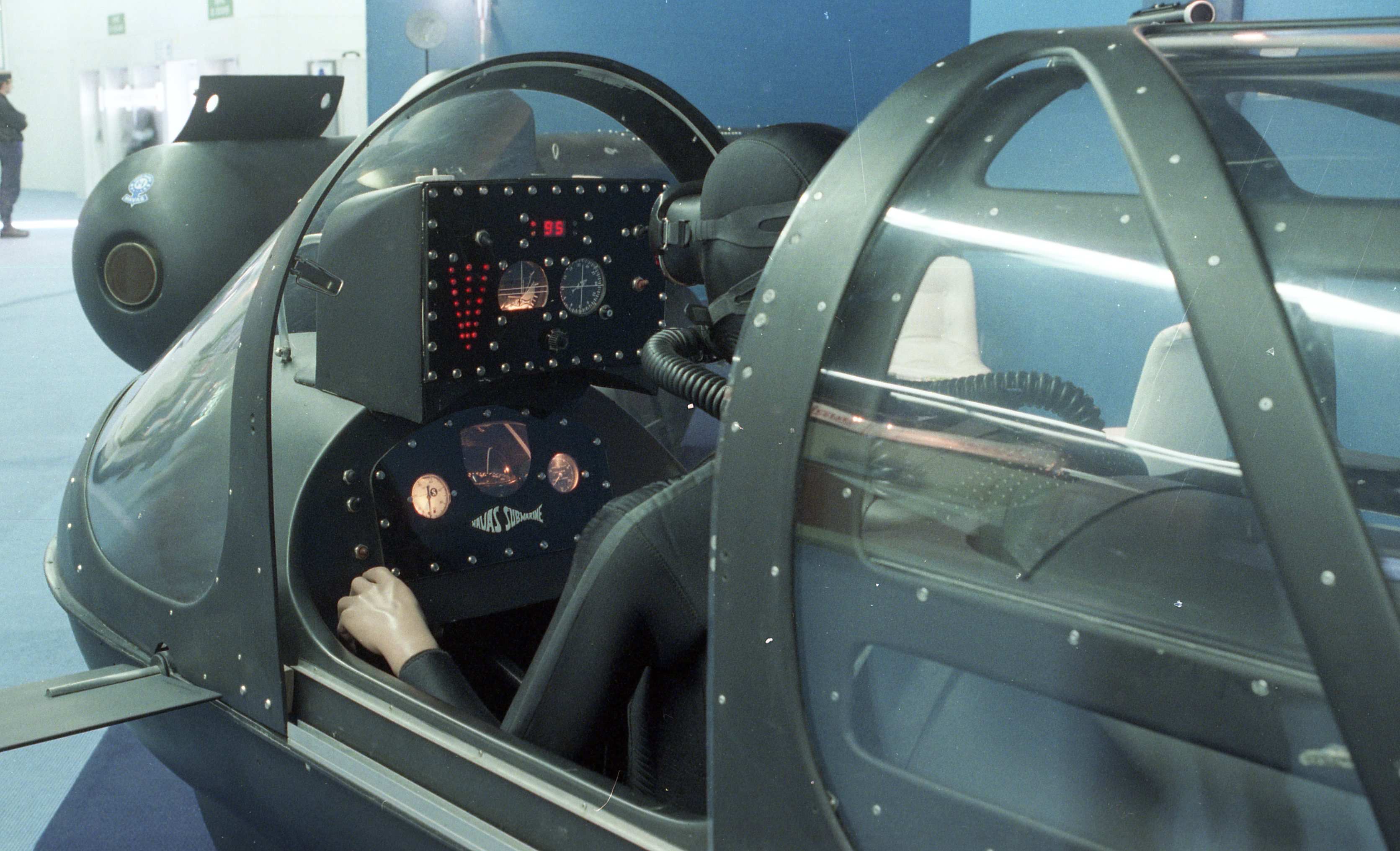 Swimmer delivery vehicle Havas Mark V